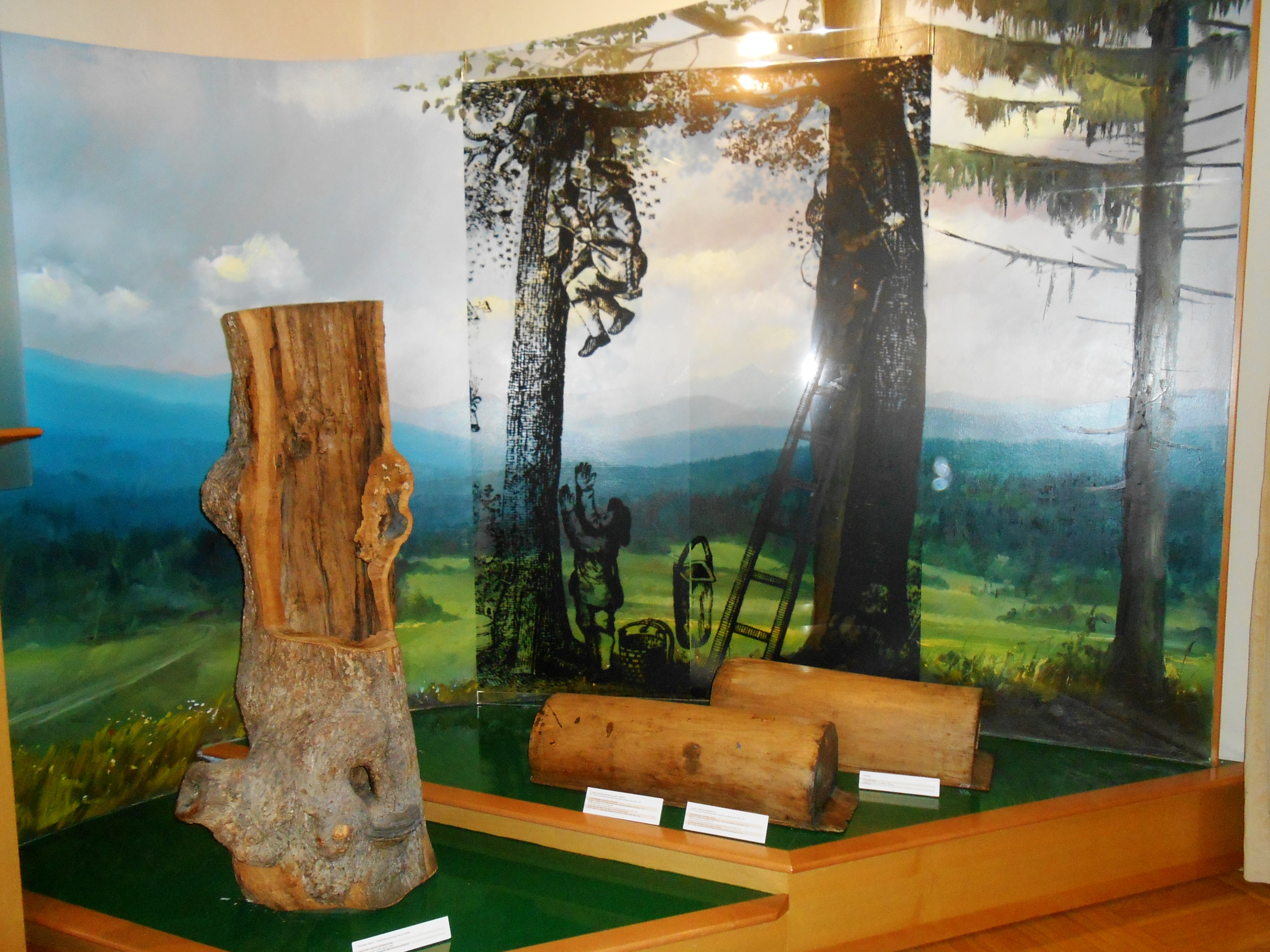 Museum of Beekeeping, the first hives, Radovljica, Slovenia